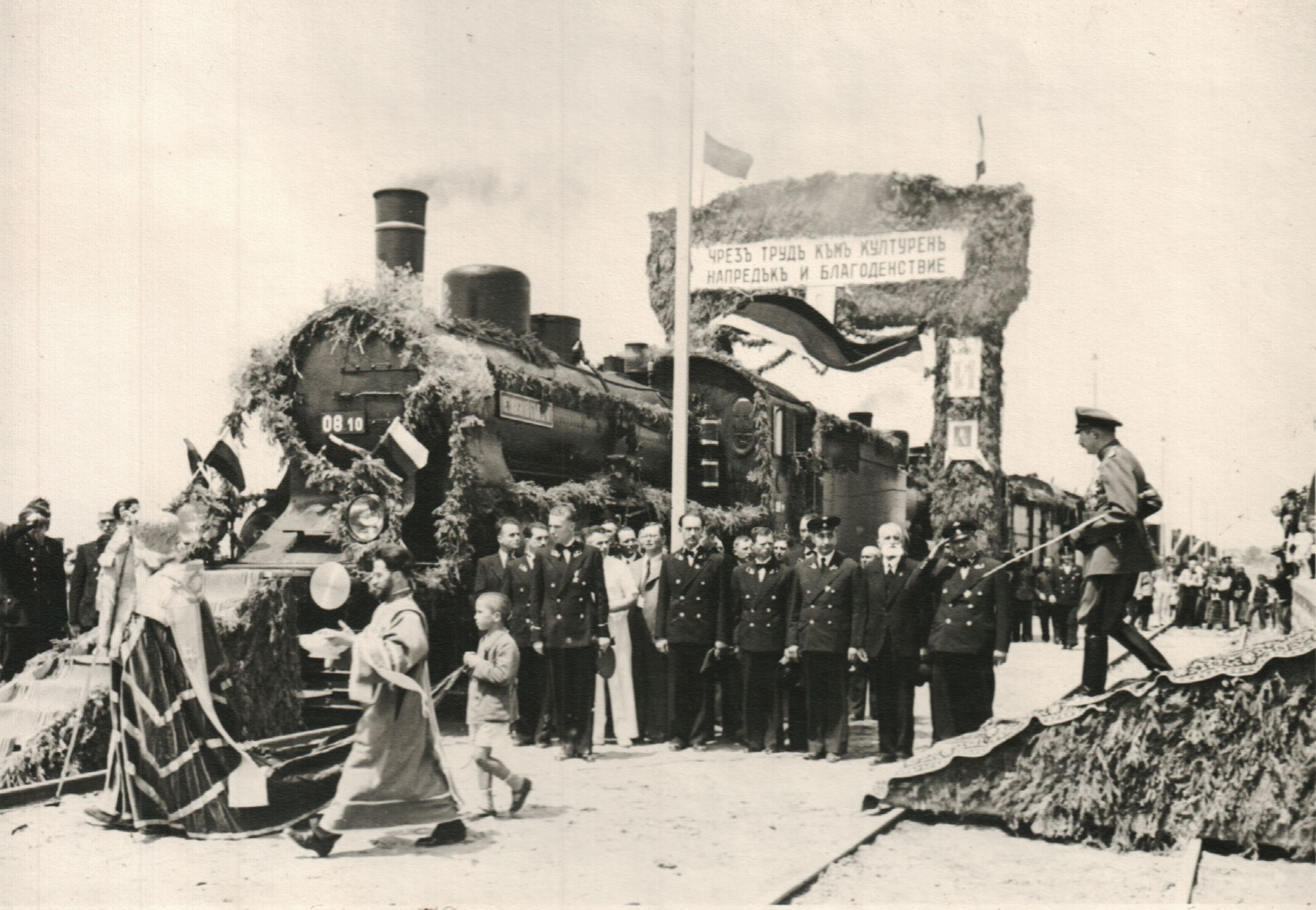 Burgas-Pomorie railway line, Bulgaria